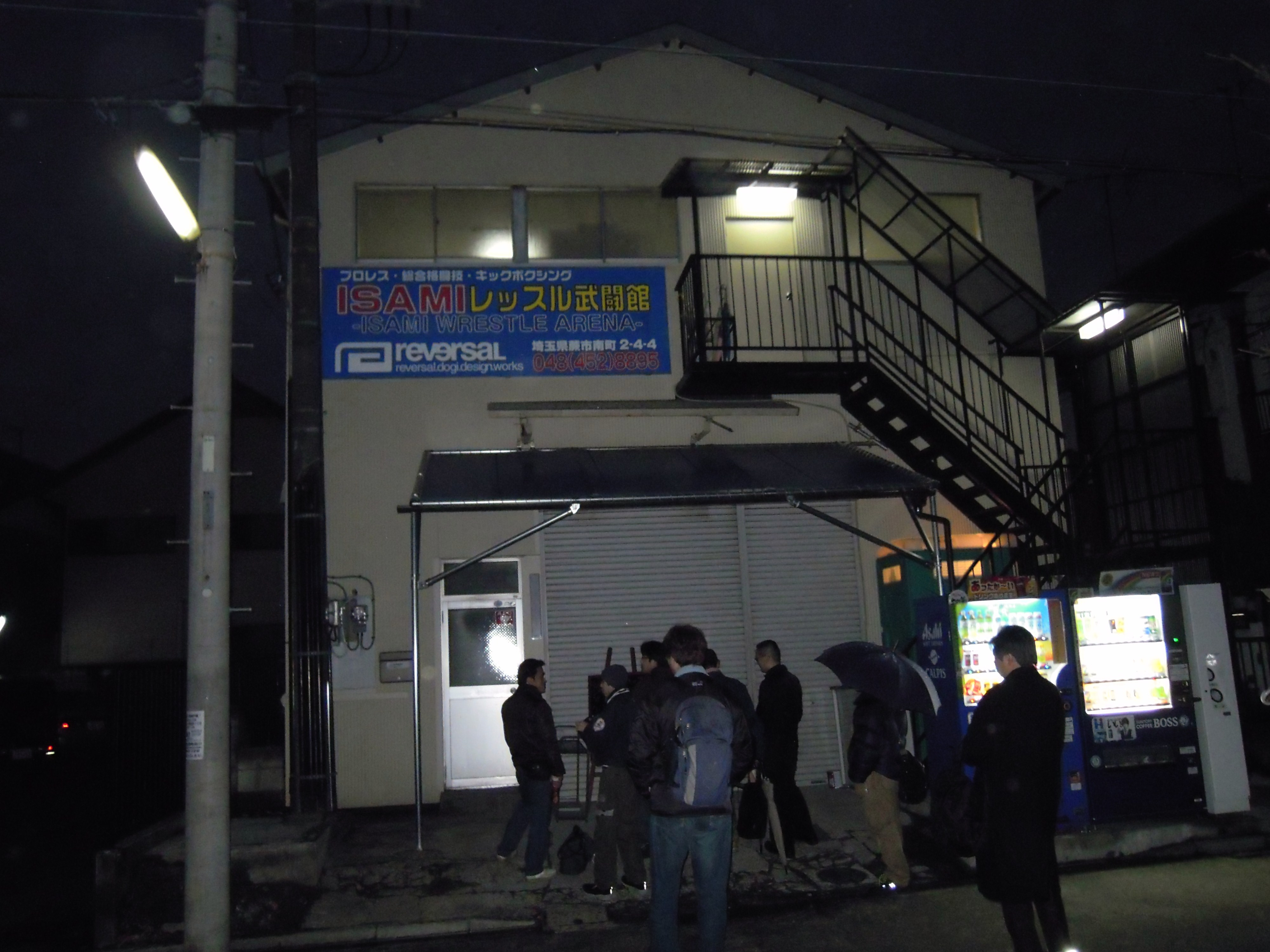 ISAMI WRESTLE ARENA